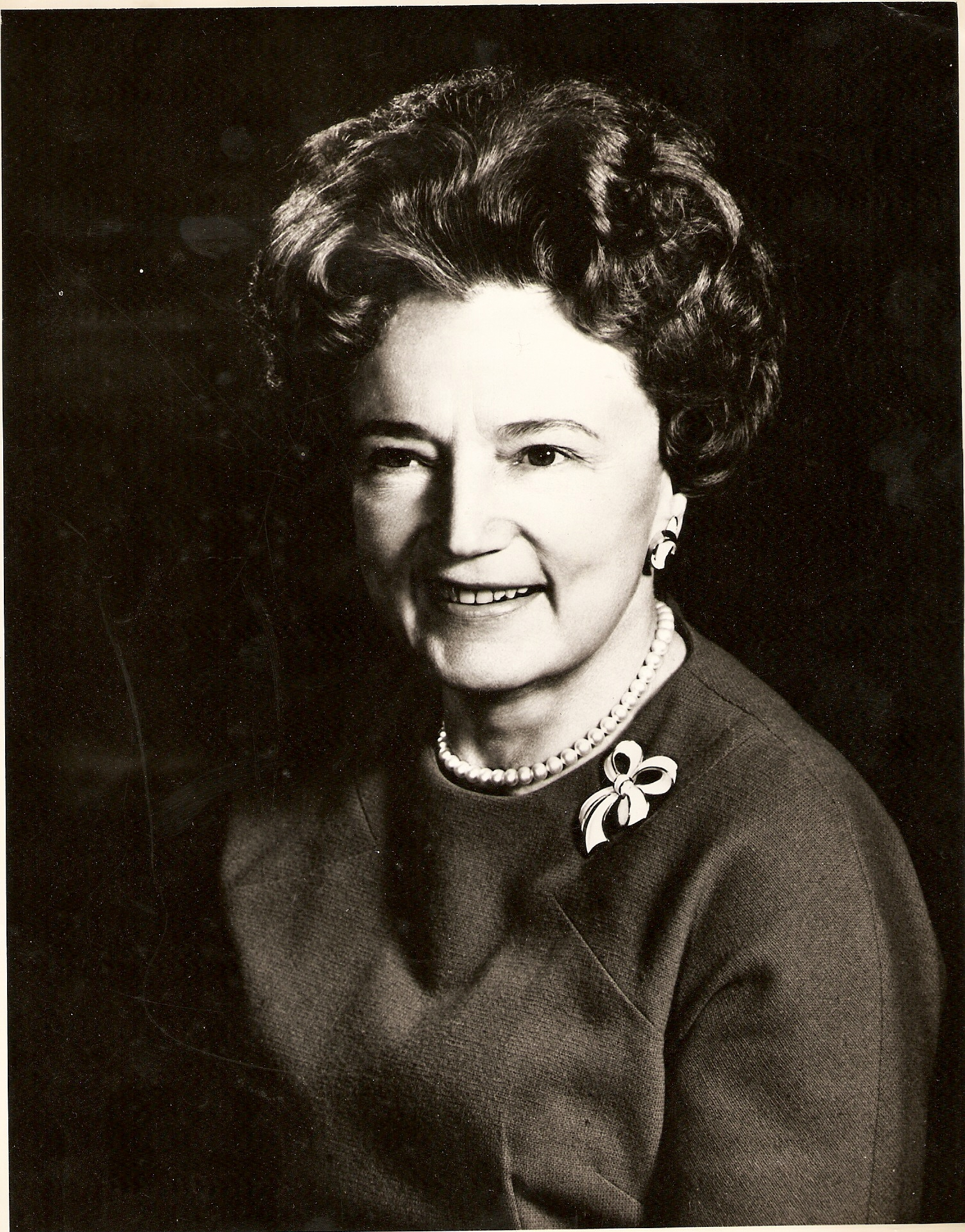 Dr. Edris Rice-Wray M.D. was one of the America's 75 most important Women, a pioneer on medical research, She gave her Talent, Time, Soul and Money to make the world a better place